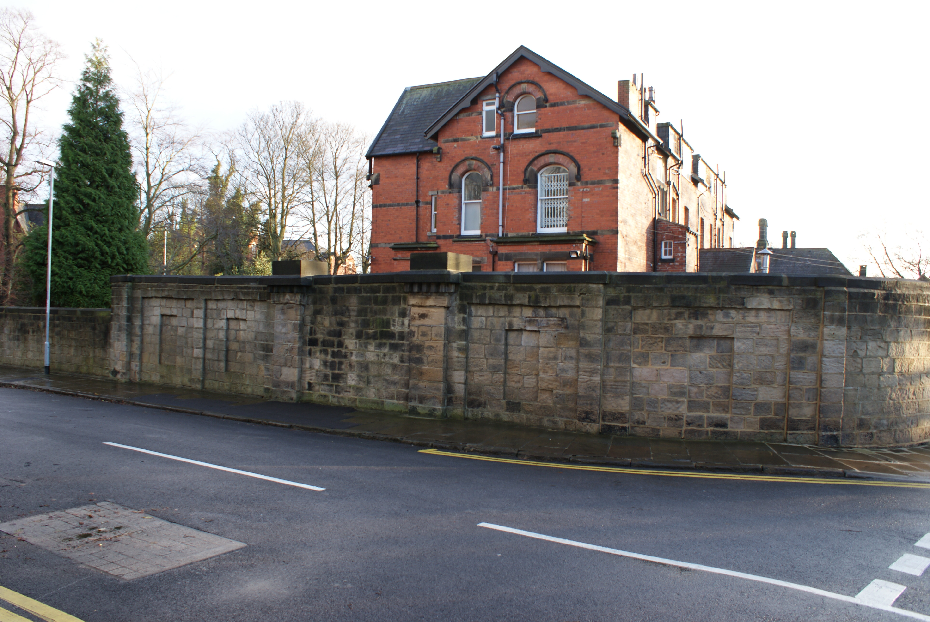 Leeds Zoological and Botanical Gardens, Headingley